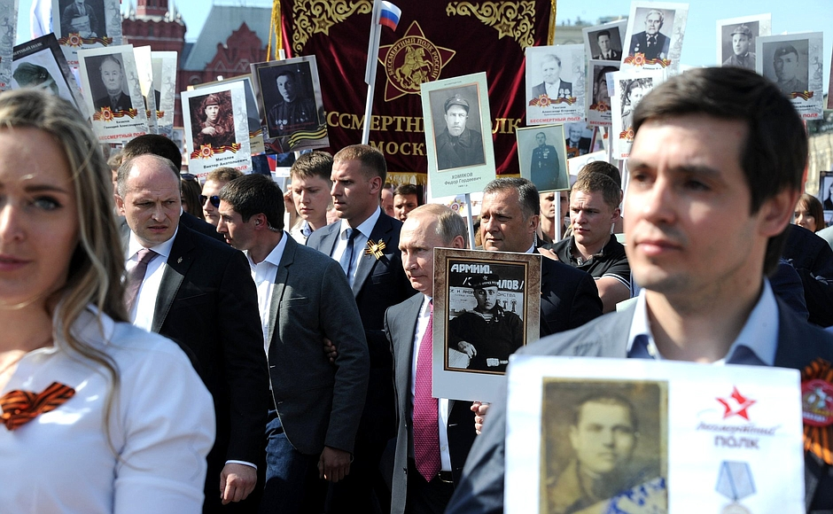 Vladimir Putin at Immortal regiment (Moscow, 2016-05-09)